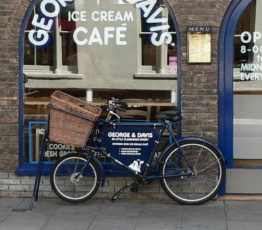 A crop of File:George&Davis.JPG by User:Talkie_tim, highlighting the Pashley Cycles bicycle. Original description is: Picture of George & Davis' Ice Cream Café on Little Clarendon Street, Oxford.